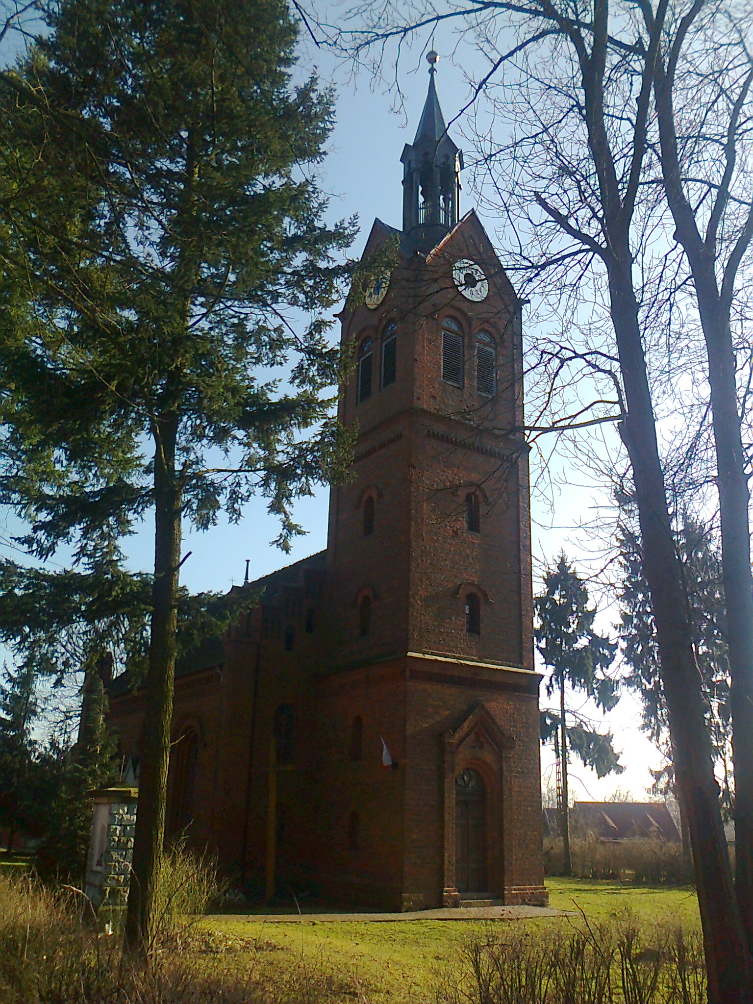 Church of Görbitsch, East Brandenburg